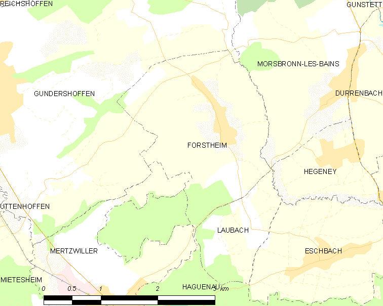 Map of French municipality